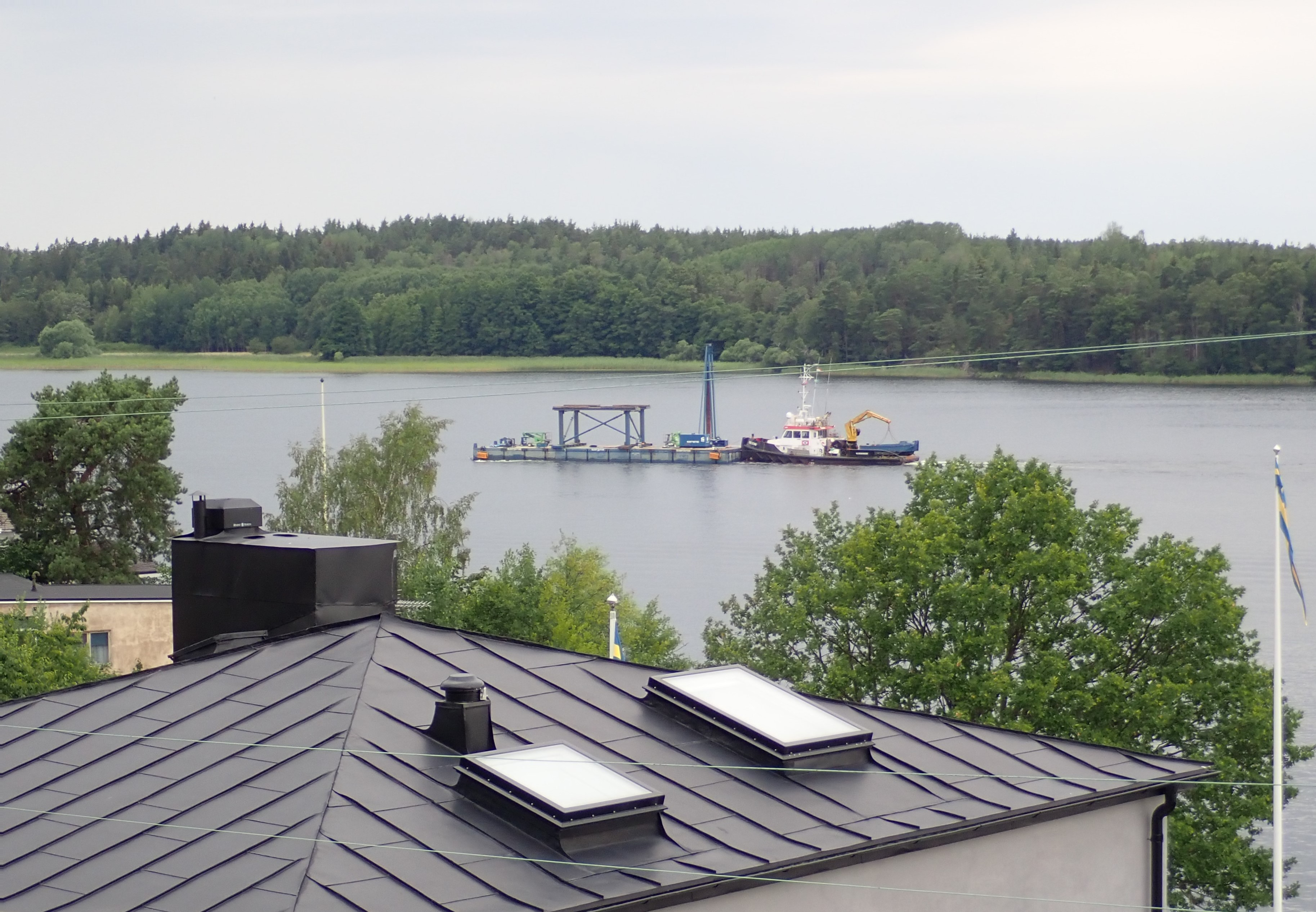 Tugboat Sea Echo in Lake Mälaren in Sweden, on her way from Stockholm to Södertälje on Sunday, July 21, 2019. Built: 2007, Damen Shipyard Kozle S.A., Kedzierzyn-Kozle. IMO: 9444663 .